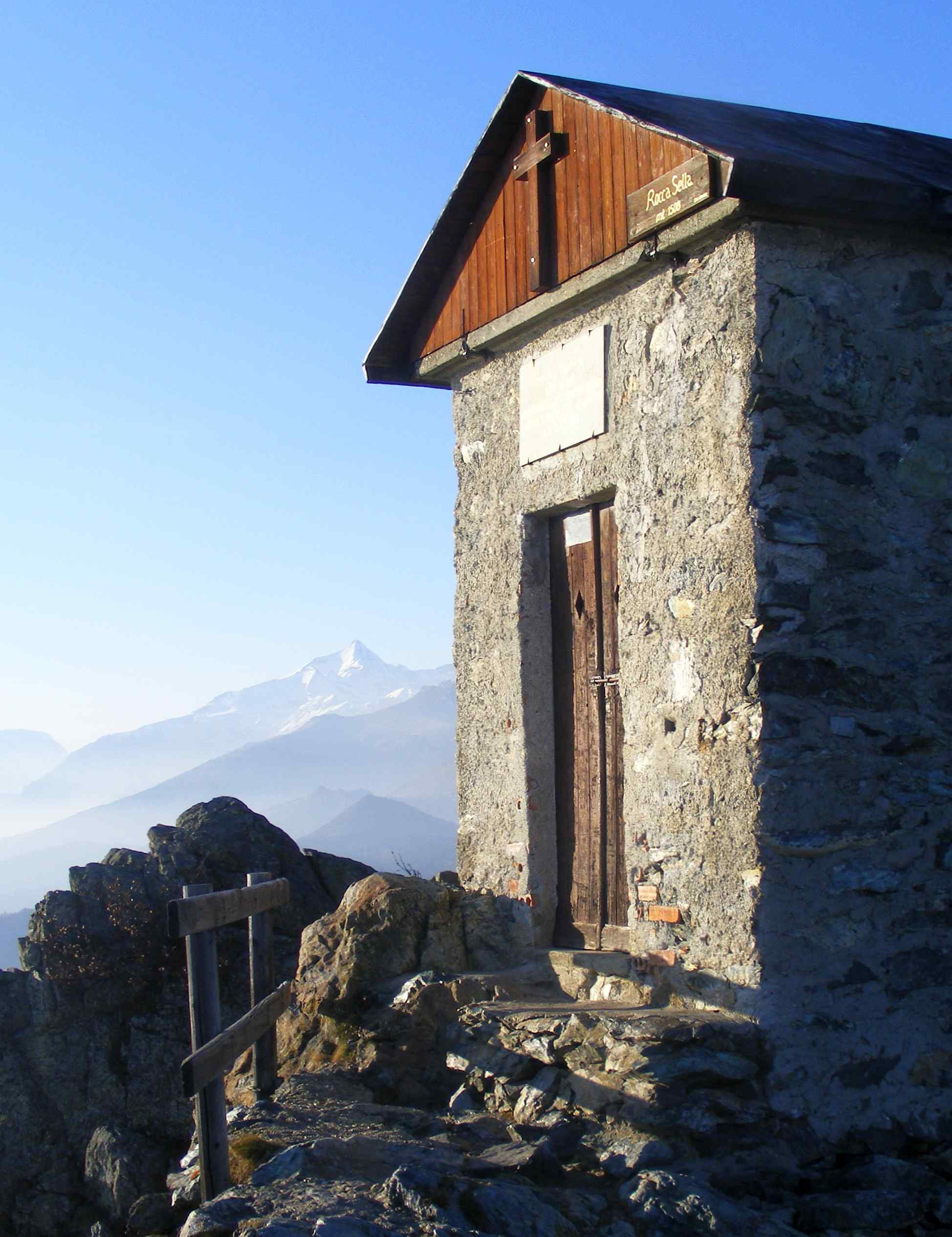 Rocca Sella: the chapel on its summit, in the background Mount Rocciamelone (Graian Alps, TO, Italy)